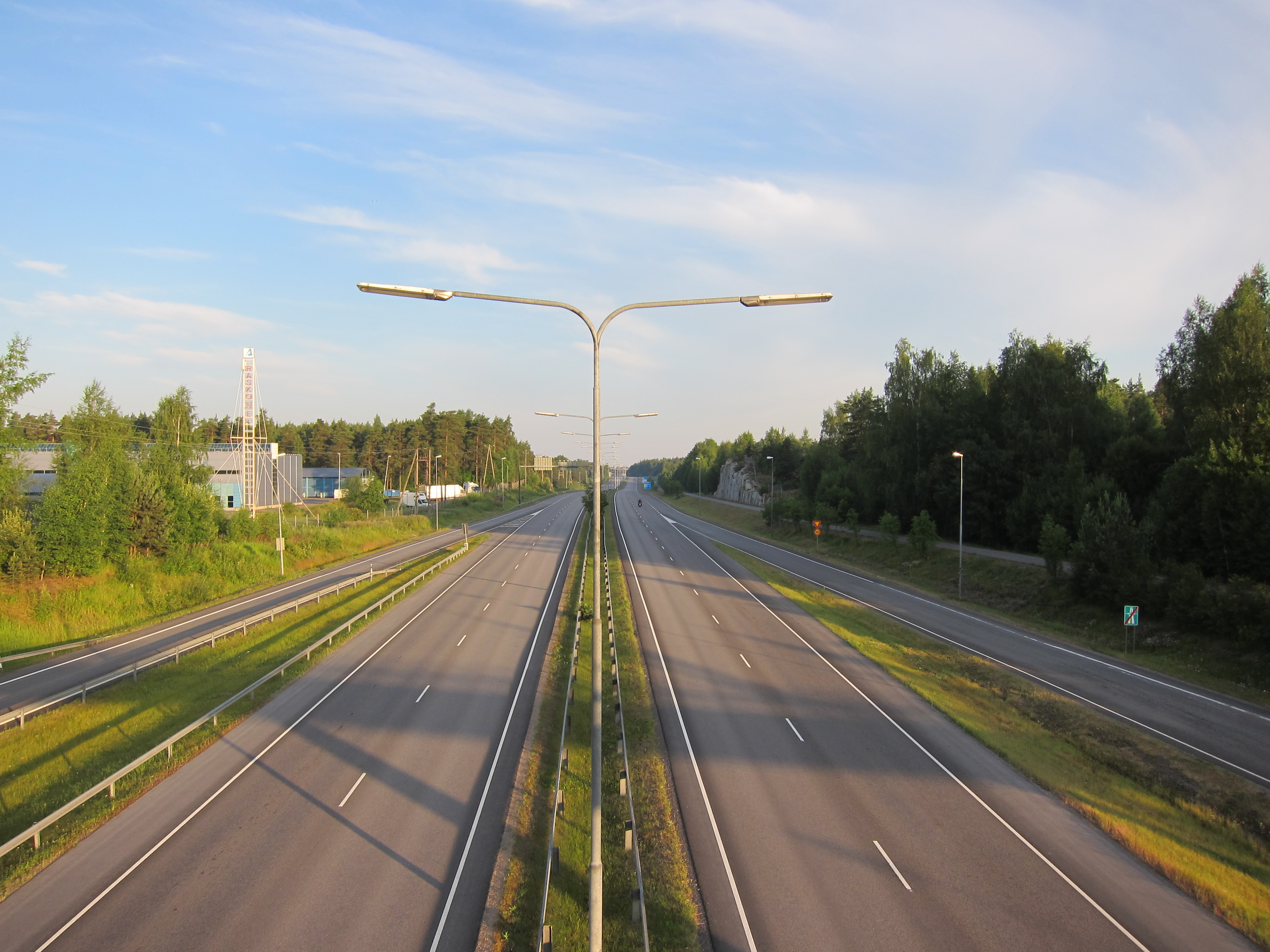 Kärsämäki interchange at Finnish national road 40 (part of European route E18) in Turku, Finland.